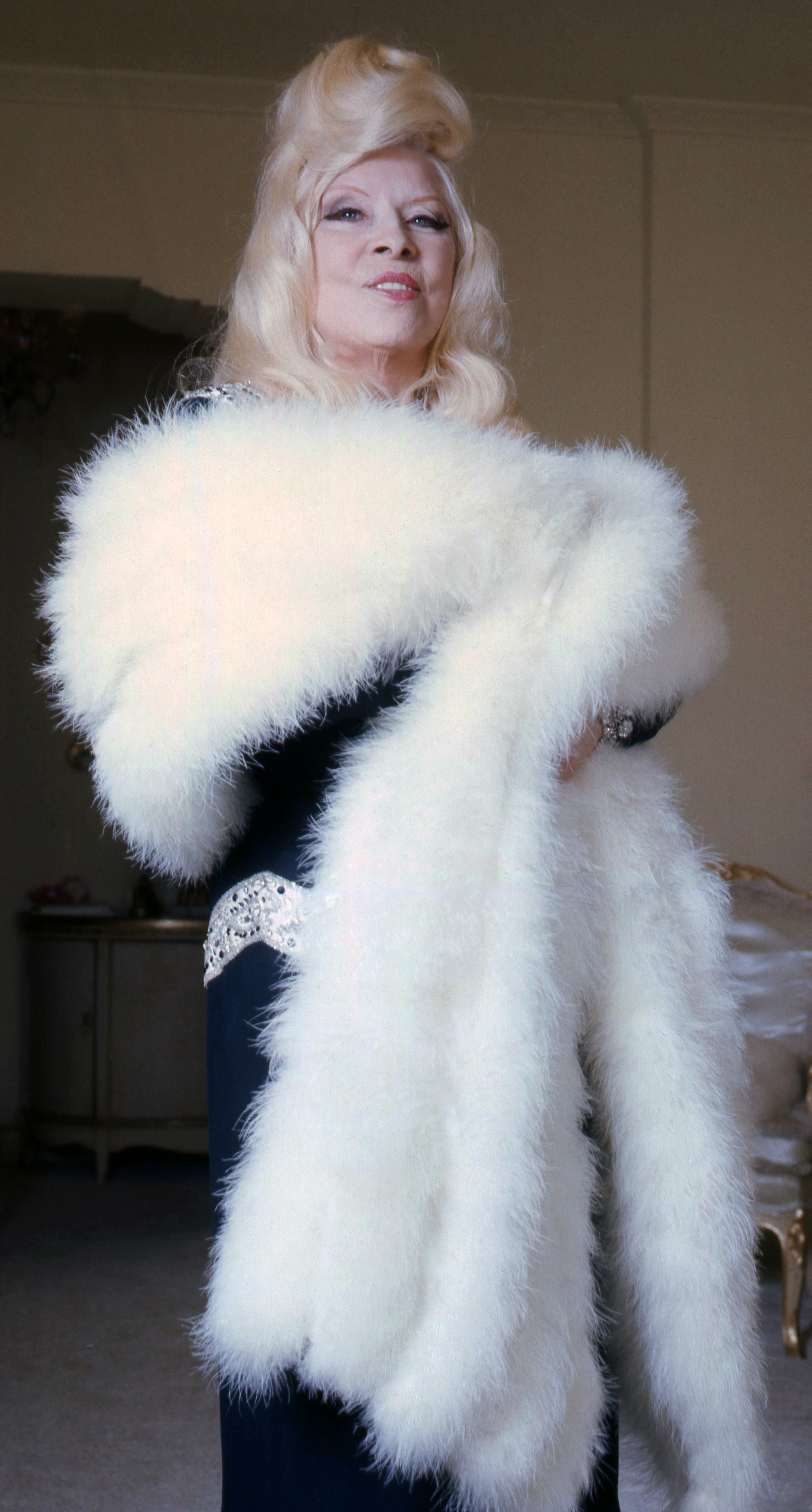 Mae West in her sitting room at Ravenswood, Los Angeles